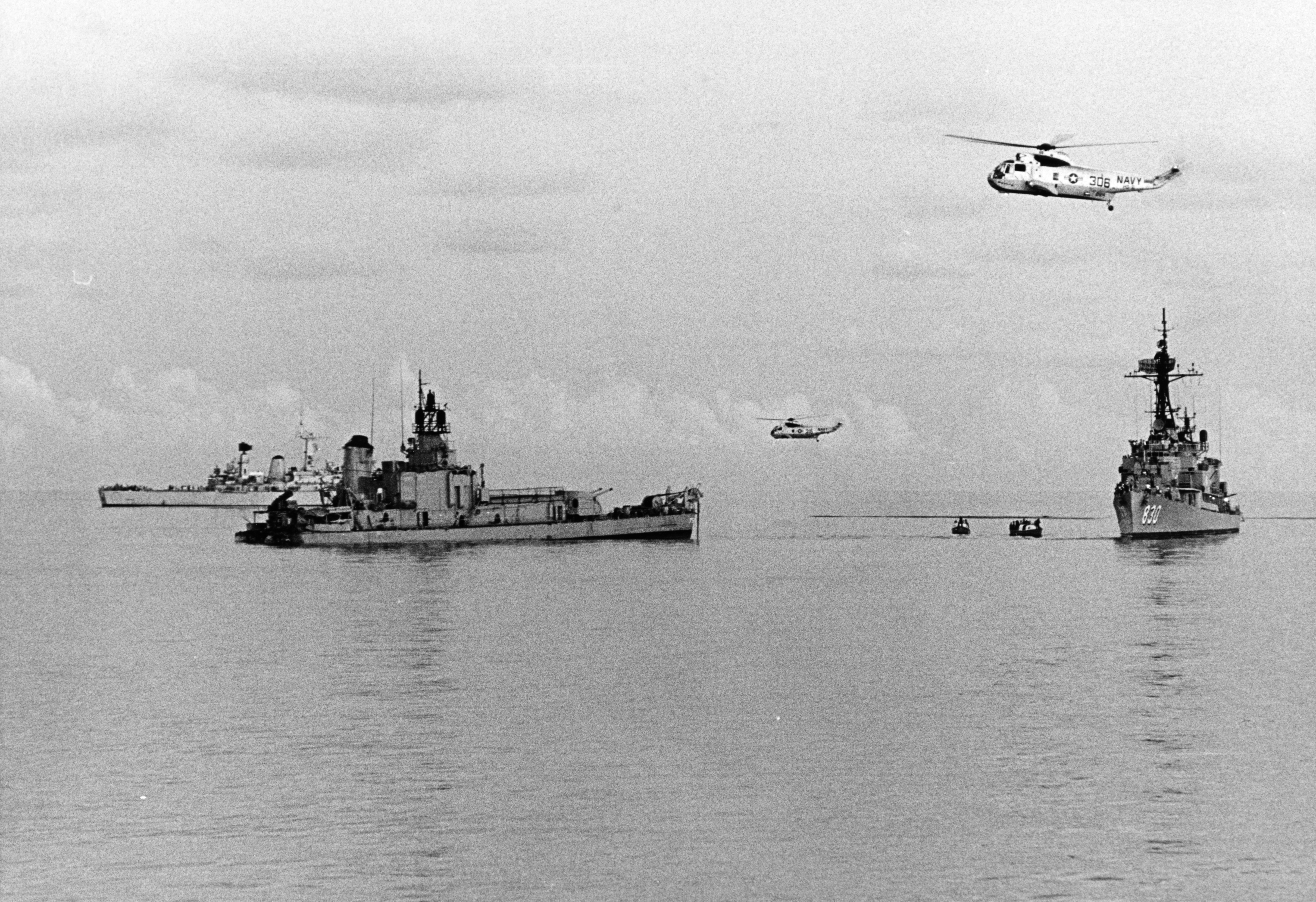 U.S. Navy SH-3A Sea King helicopters from USS Kearsarge (CVS-33) join search and rescue operations over the stern section of USS Frank E. Evans (DD-754), as USS Everett F. Larson (DD-830) stands ready to offer assistance (at right) on 2 June 1969. HMS Cleopatra (F28) is also present. Frank E. Evans was cut in two in a collision with the Australian aircraft carrier HMAS Melbourne (R21) during SEATO exercises in the South China Sea.